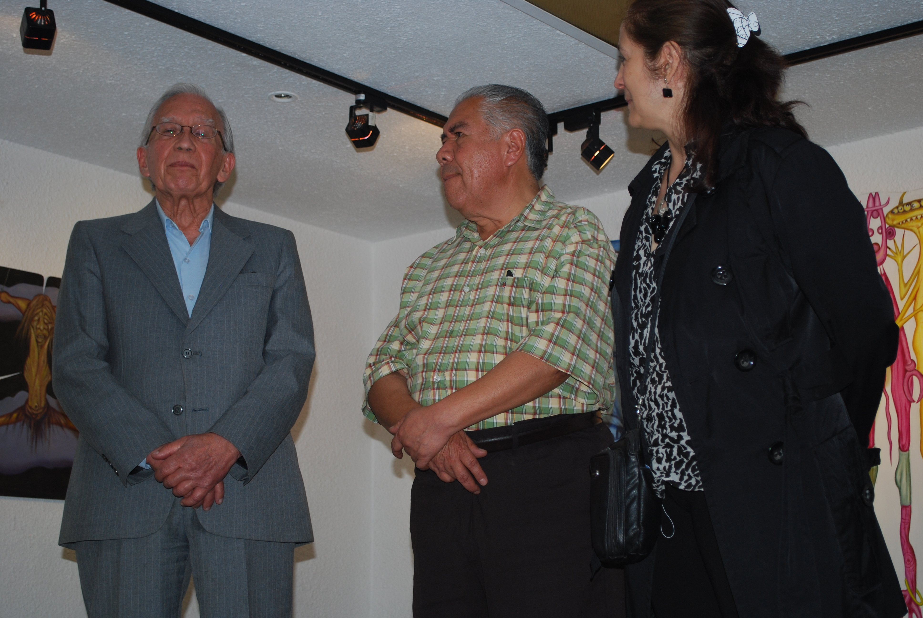 Rodolfo Aguirre Tinoco, José Julio Gaona Adame and Celia Santacruz at the opening of Muroart at the Salón de la Plástica Mexicana